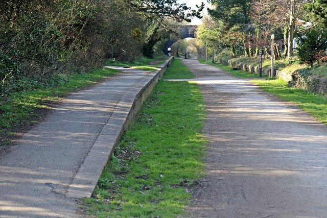 Platform and bridge, formerly Thurstaston Station